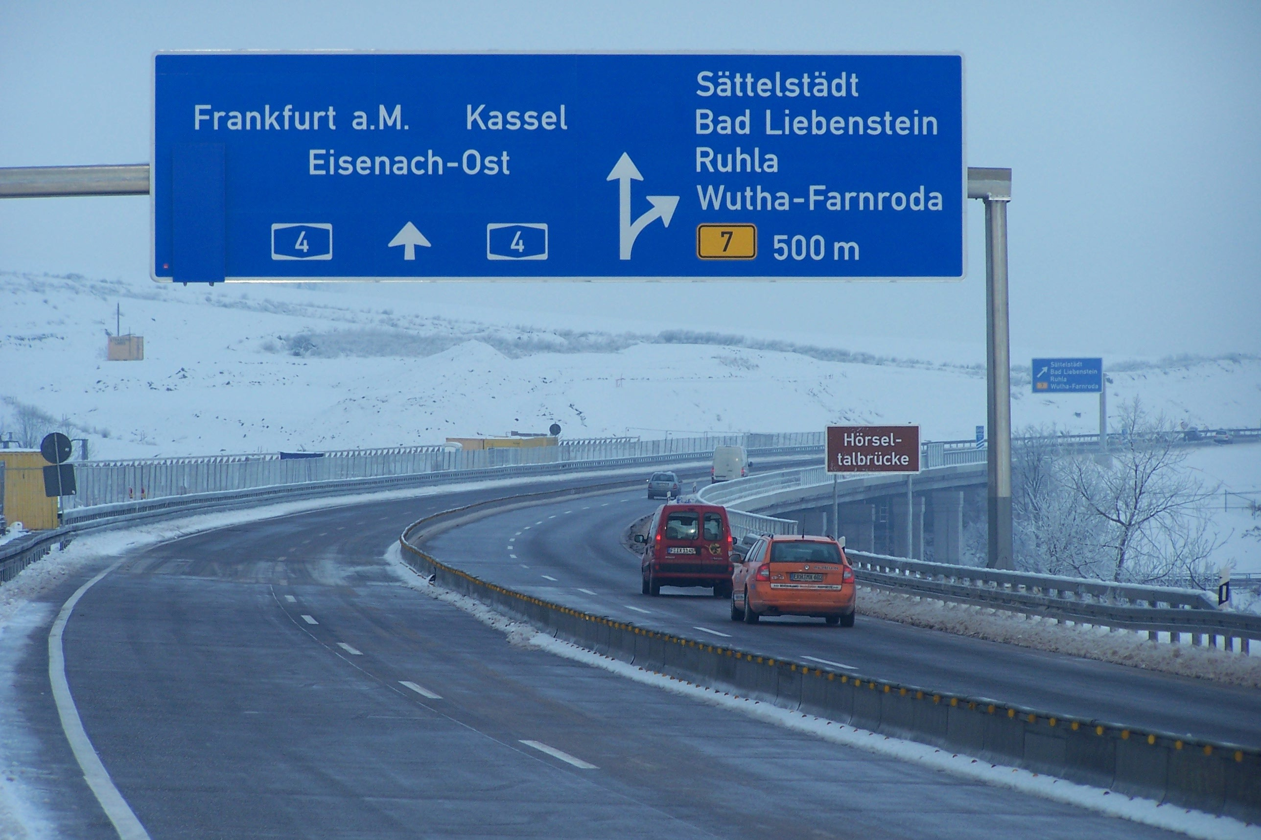 The new BAB-4-bridge in Sättelstädt.